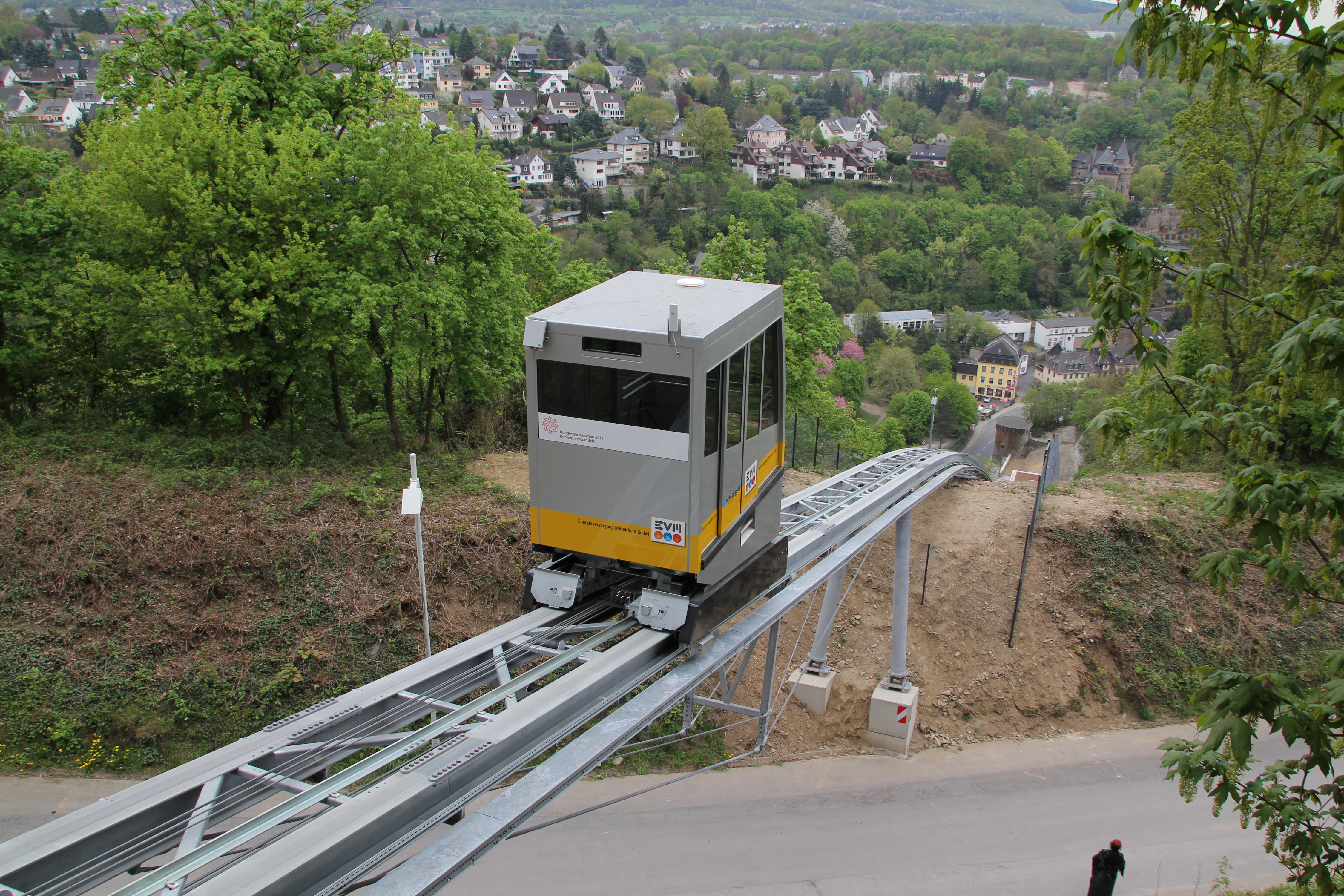 Federal Horticultural Show 2011 in Koblenz - Ehrenbreitstein Fortress